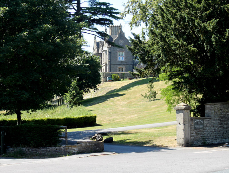 Cholwell House in the parish of Cameley, Somerset. Historic seat of the Rees-Mogg family. ( Burke's Genealogical and Heraldic History of the Landed Gentry, 15th Edition, ed. Pirie-Gordon, H., London, 1937, pp.1610-1611, pedigree of "Rees-Mogg of Cholwell"). Now a nursing home.